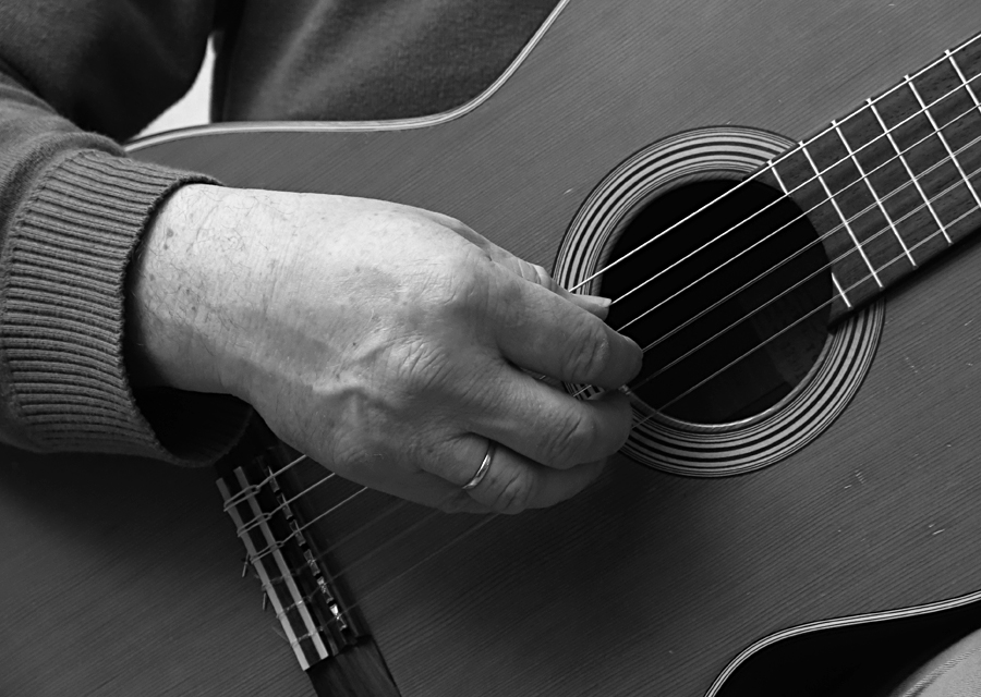 Classical Guitar Right Hand